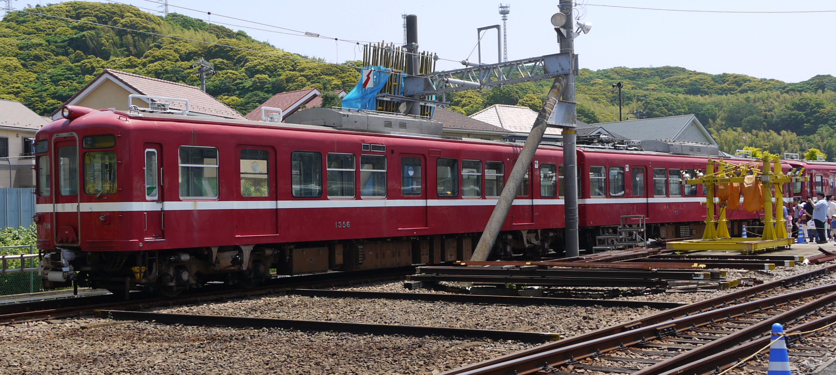 Keikyu 1000 series EMU cars 1351 and 1356 preserved at Keikyu Finetec in Kanagawa Prefecture, Japan